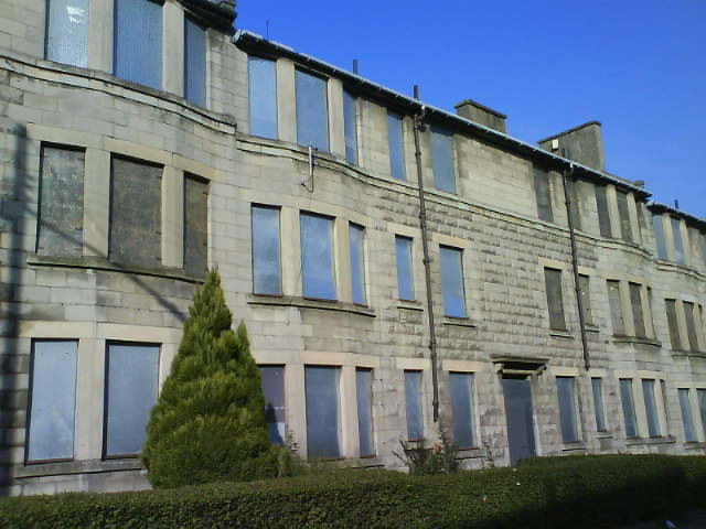 Old Oatlands 8 Granton Street,Due to be demolished as part of a regeneration programme.